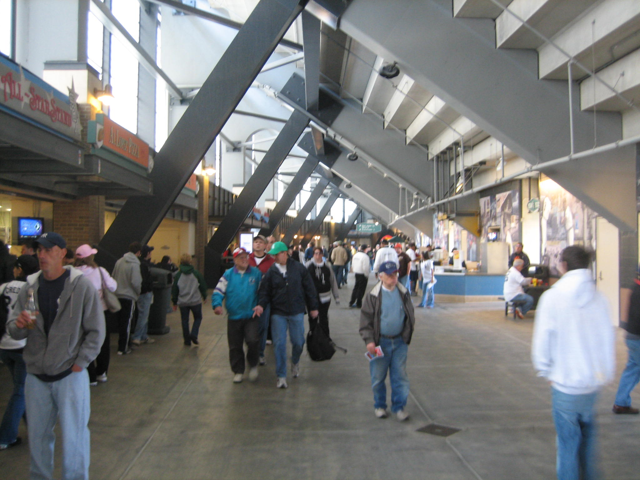 U.S. Cellular Field. Chicago Illinois.